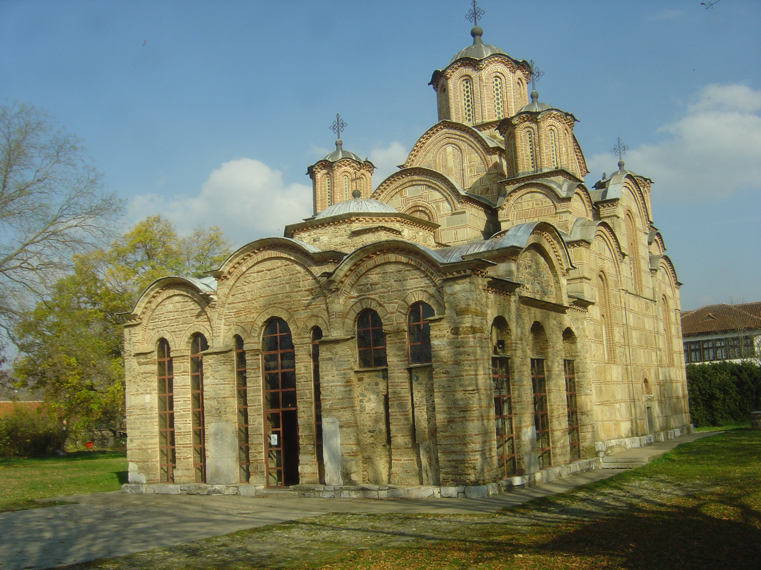 Serbian monastery of Gracanica